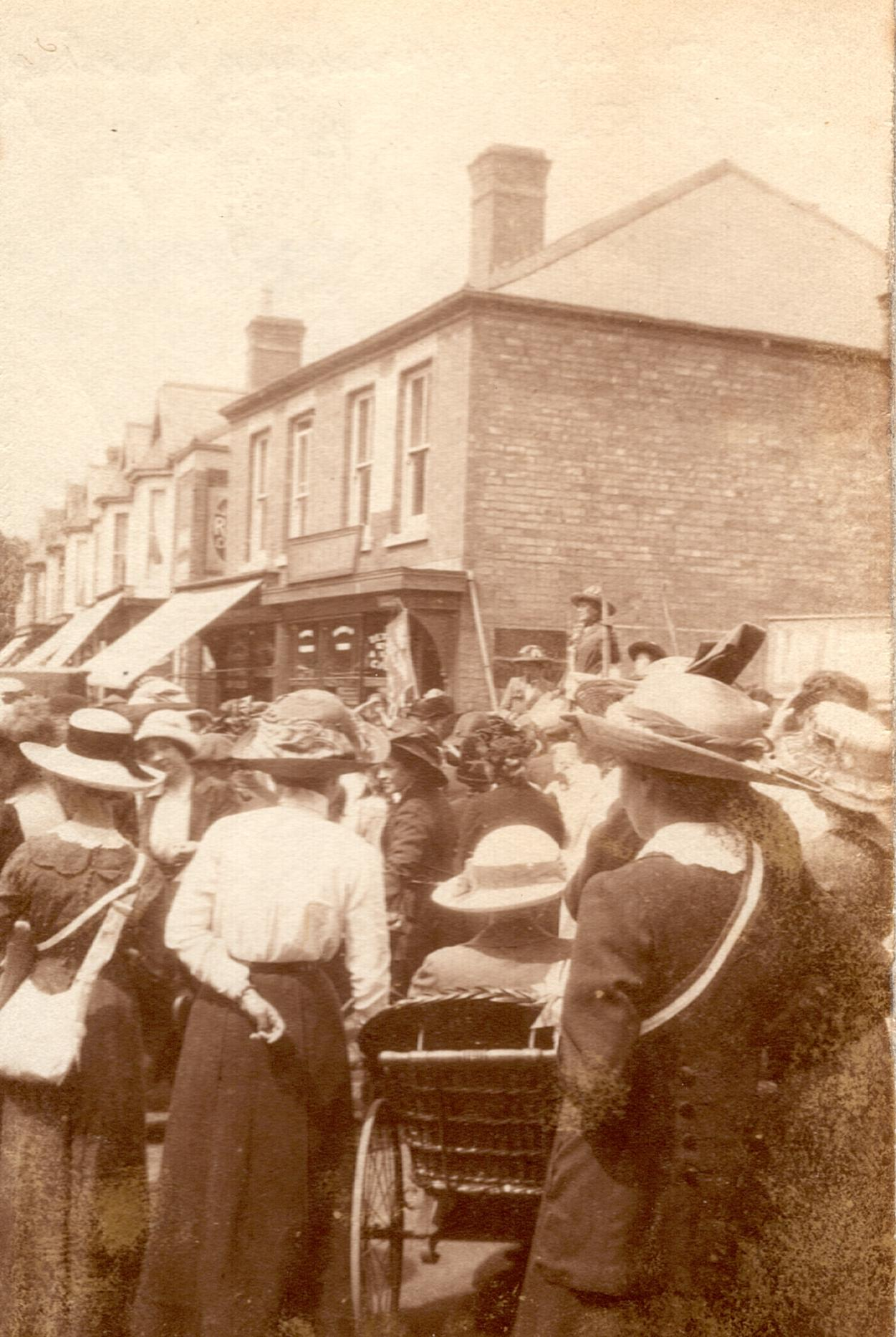 Mrs Harley addressing a meeting at Olton, Women's pilgrimage 1913